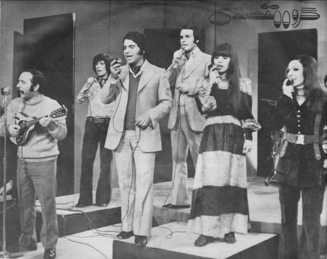 Parviz Maghsoodi band. From left: Onik (playing Mandolin), Dariush, Keyvan, Masis and Neli